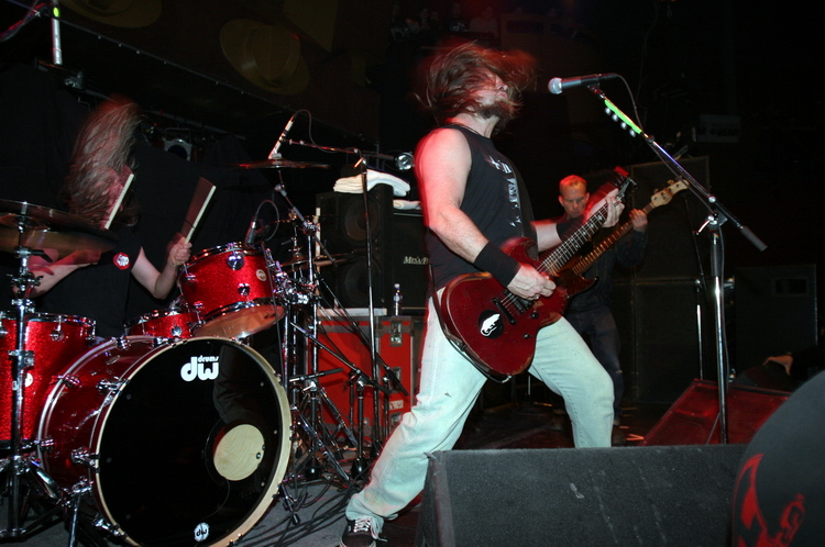 Corrosion of Conformity Live at Reds, Edmonton